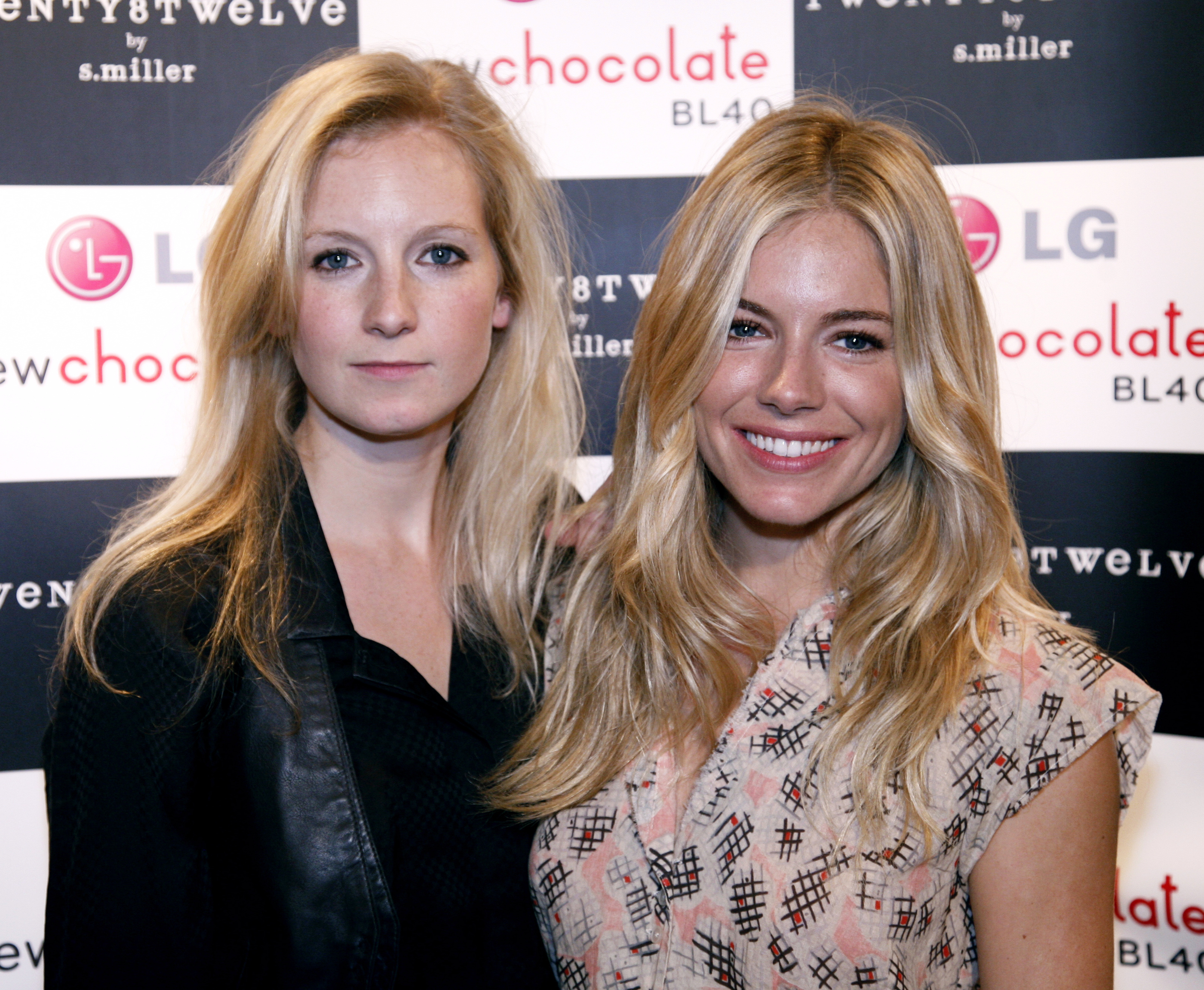 Sienna Miller (right) and her sister Savannah back stage at the Twenty8Twelve show.